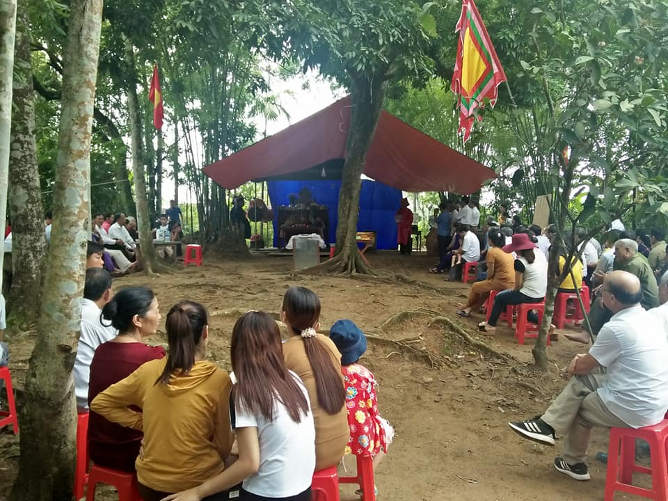 The ceremony of the tutelary genie Dinh Bo Cuong at the temple in Lien Yen hamlet, Thanh Lien commune, 2018